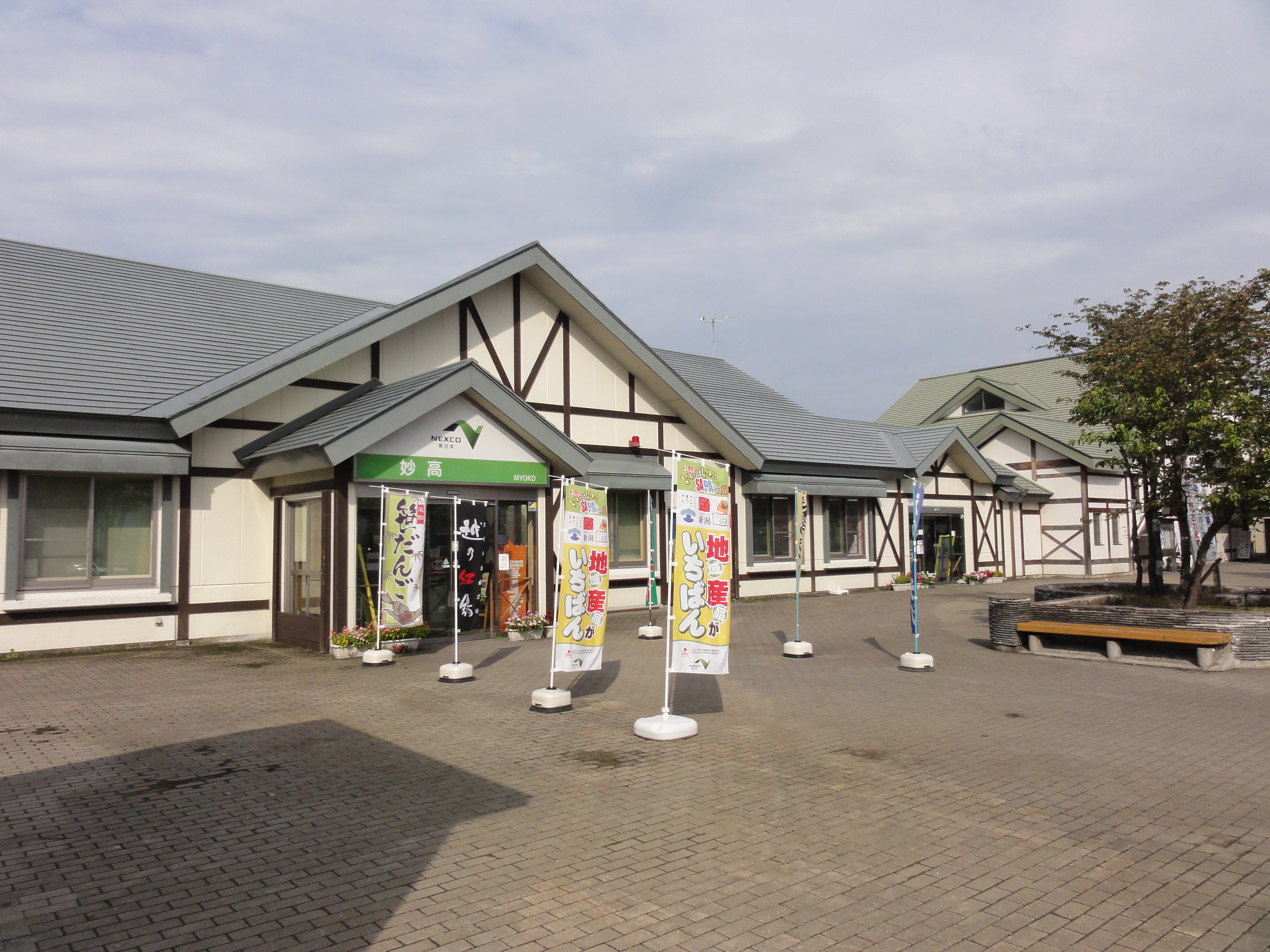 Myōkō Service Area,Niigata Pref., Japan